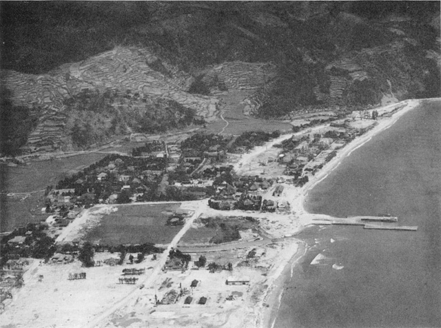 NAGO in early April 1945, as it looked for Motobu Peninsula.